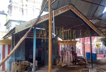 Tanjorevaidyanathaeeswarar temple தஞ்சாவூர் வைத்தியநாதேஸ்வரர் கோயில்